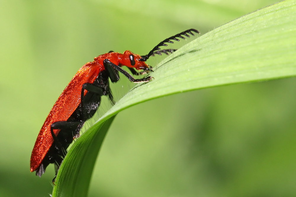 Cardinal Beetle